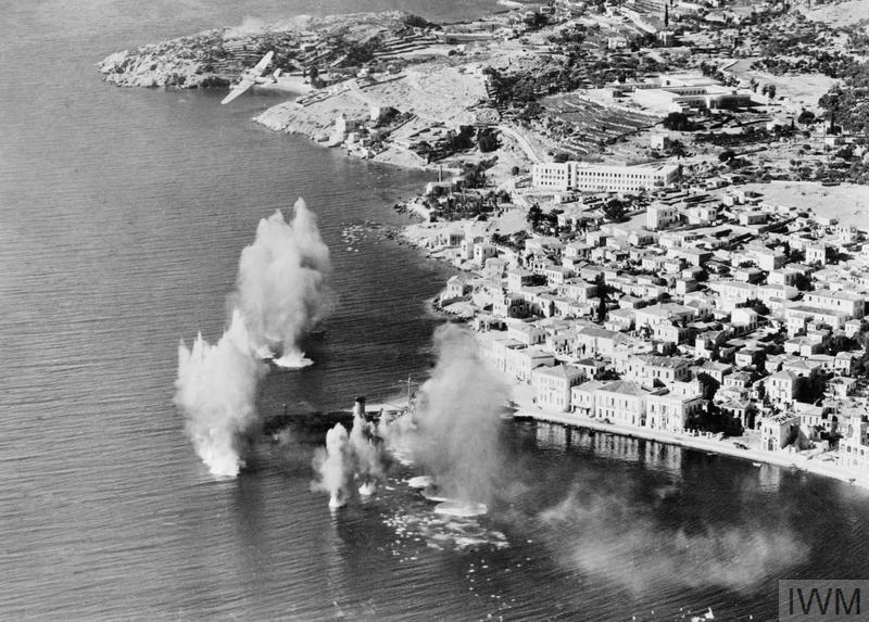 The German minelayer Drache under attack at Vathy on the island of Samos